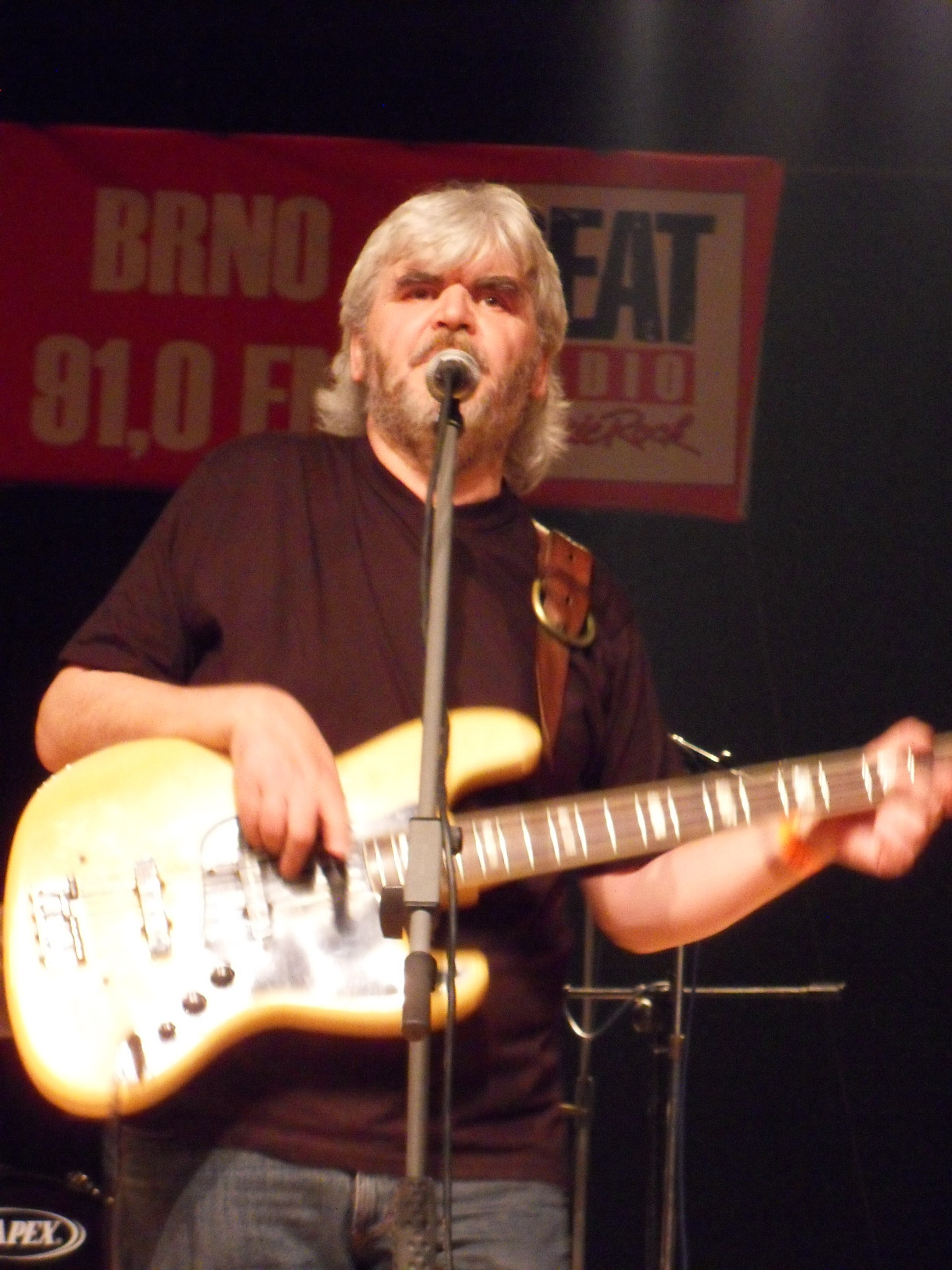 Bass guitarist and vocalist Pavel Pelc of Czech band Progres 2, Brno, Czech Republic